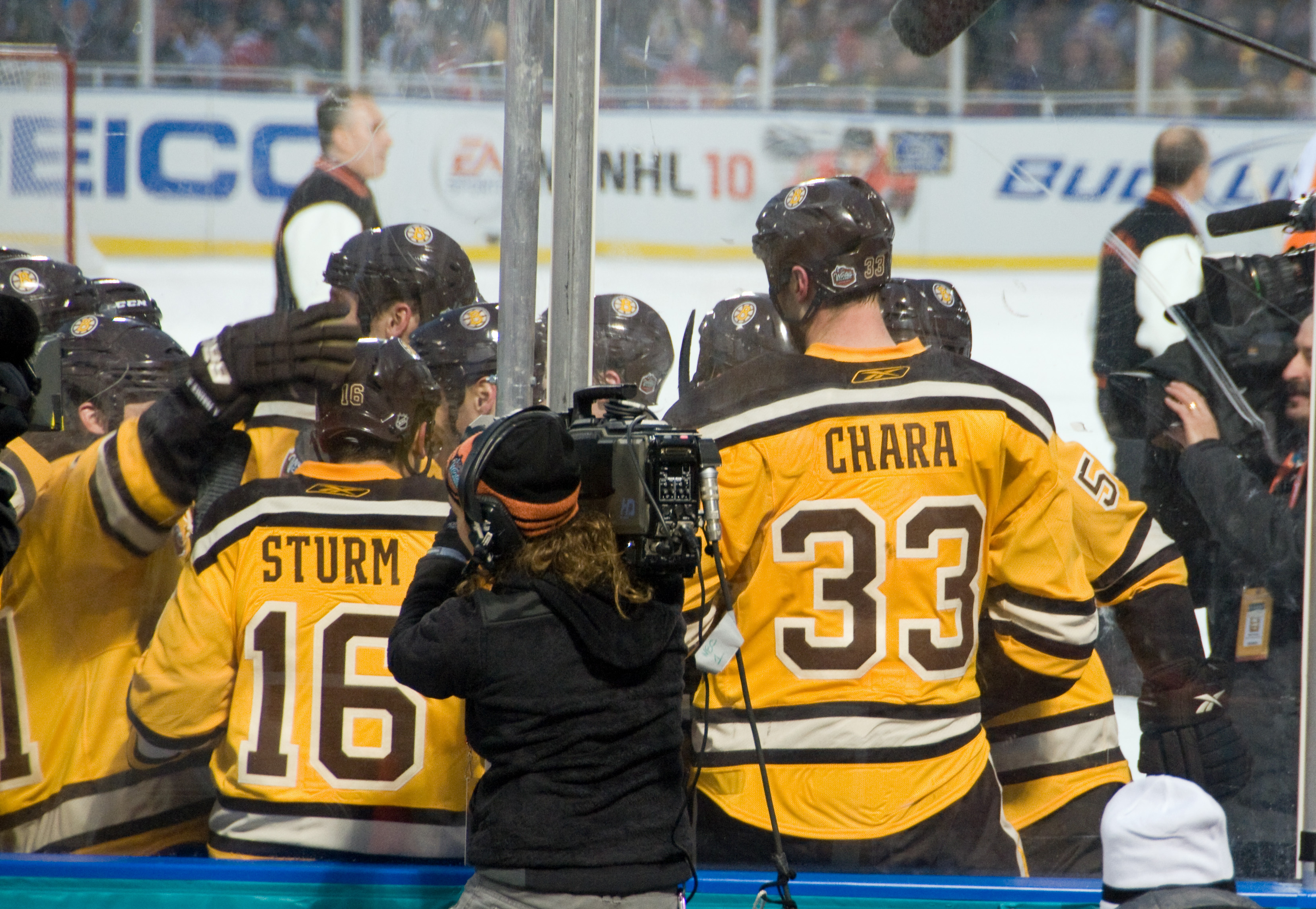 The Bruins congratulating Marco Sturm after scoring the winning goal.